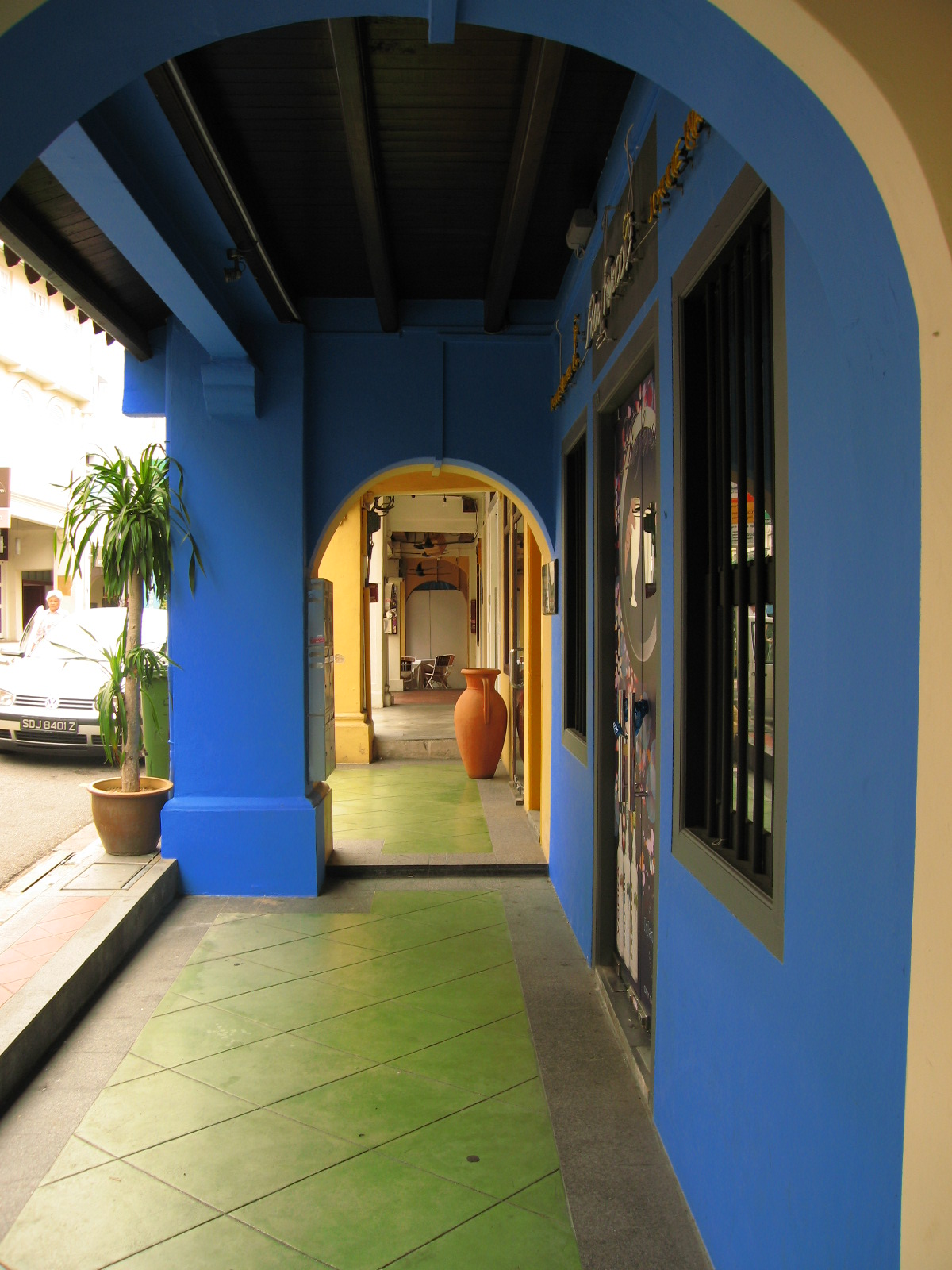 View down a five foot way in Singapore